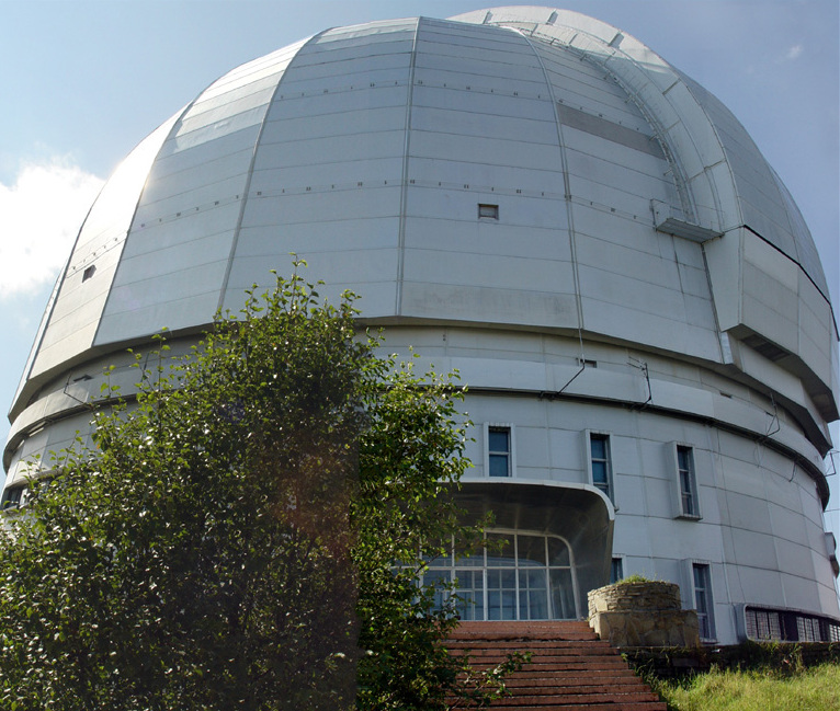 Главная обсерватория (Большой Телескоп Азимутальный) (trans. "Main observatory (large telescope azimuthal) [at the Special Astrophysical Observatory of the Russian Academy of Science]")